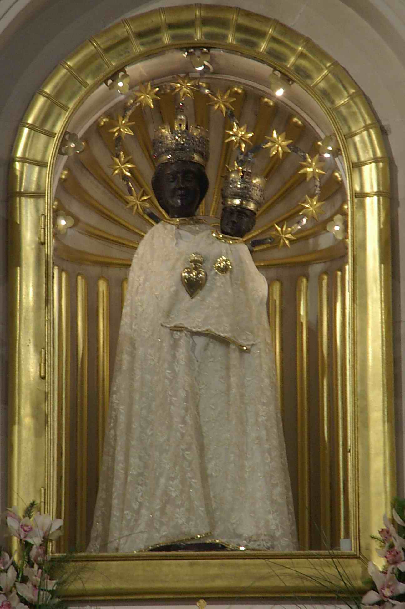 The statue of the Mather of God of Bitrica.